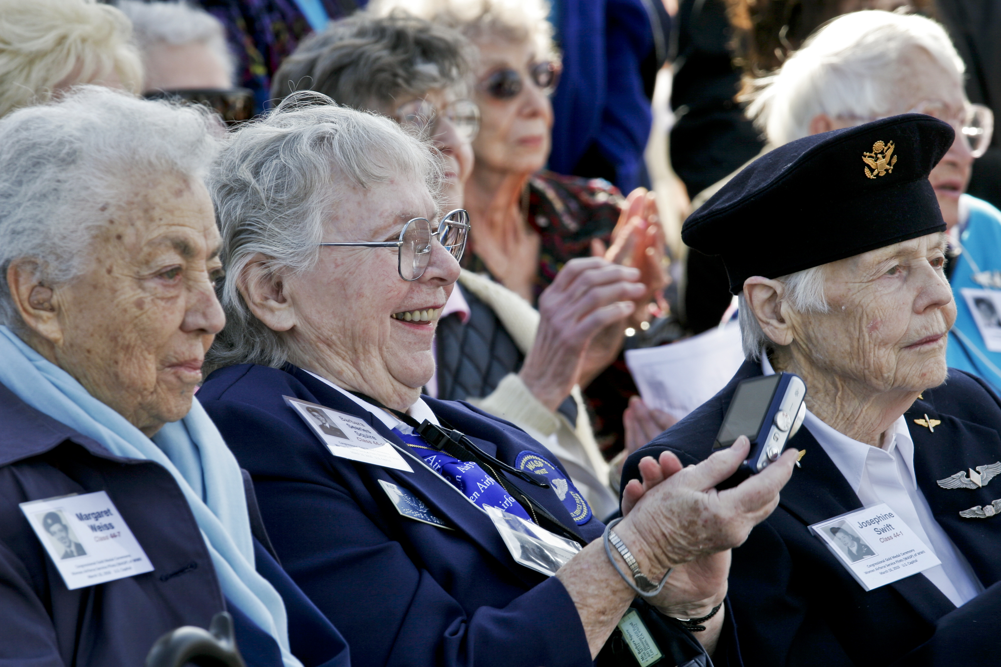 Barbara Searles Squires, who flew with the Women Airforce Service Pilots during World War II, applauds comments during a wreath-laying and remembrance ceremony to honor the women pilots at the Air Force Memorial in Arlington, Va., March 9, 2010.